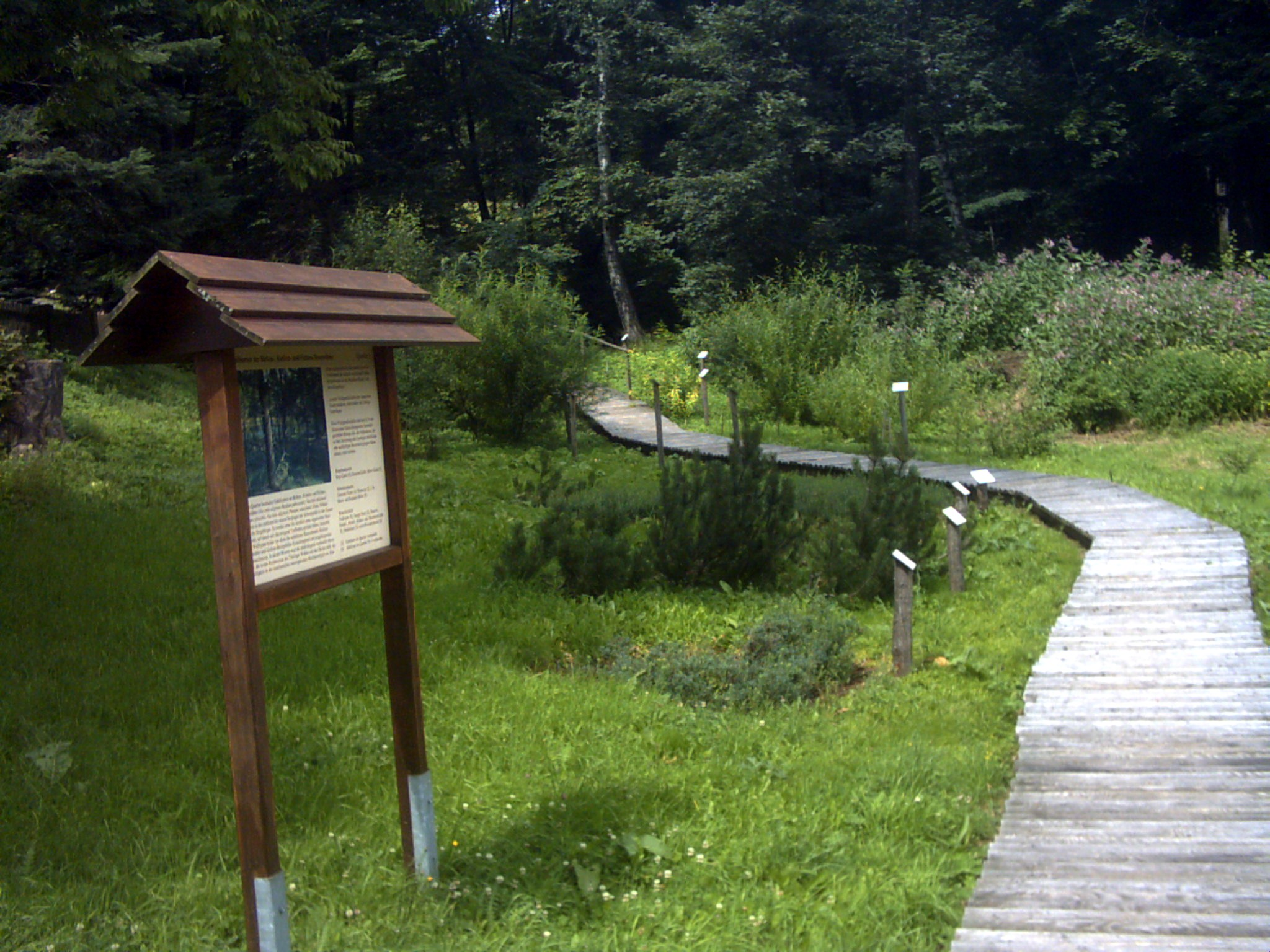 This picture shows the “Naturlehrpfad” (Nature Path) in Bärenfels/Germany.